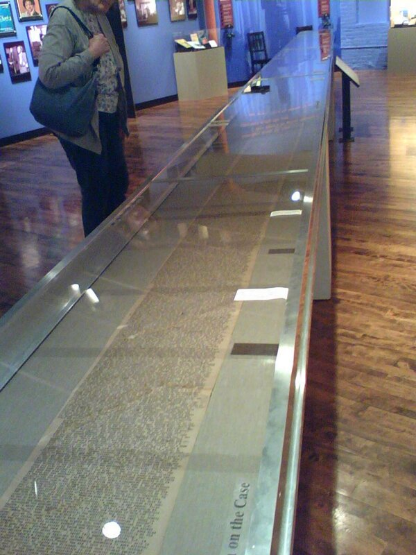 The original manuscript (a 120-foot scroll) of Jack Kerouac's novel, "On The Road", photographed on August 19, 2007 at an exhibition in Lowell, Massachusetts.